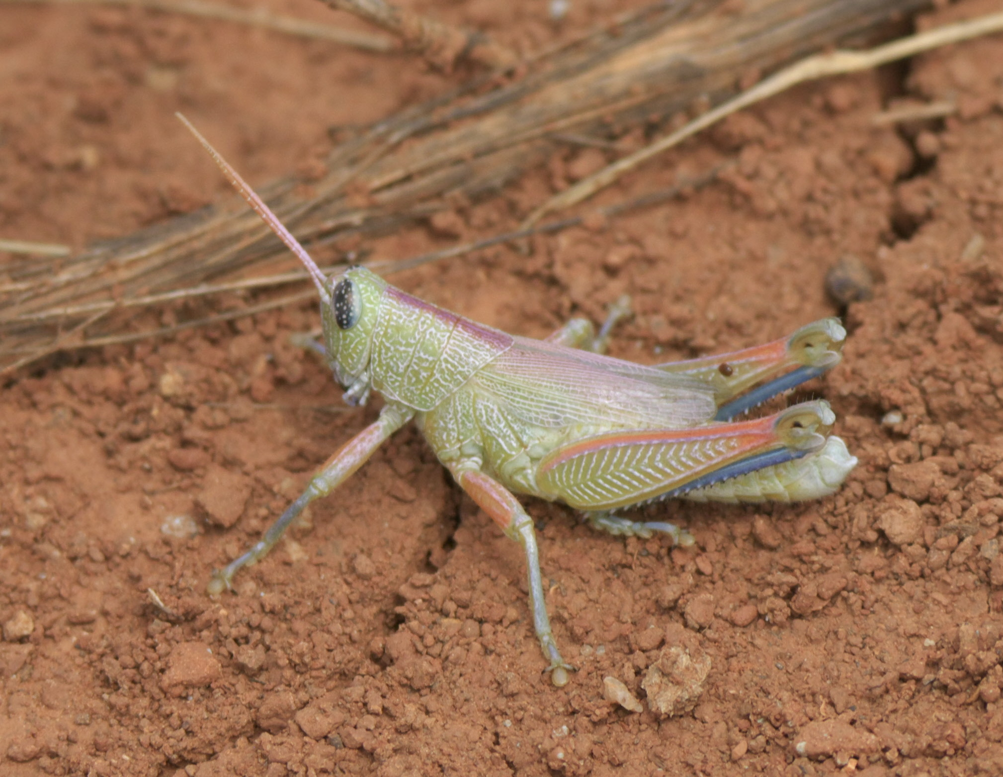 Hesperotettix speciosus, Showy Grasshopper, male, ID Confidence: 98